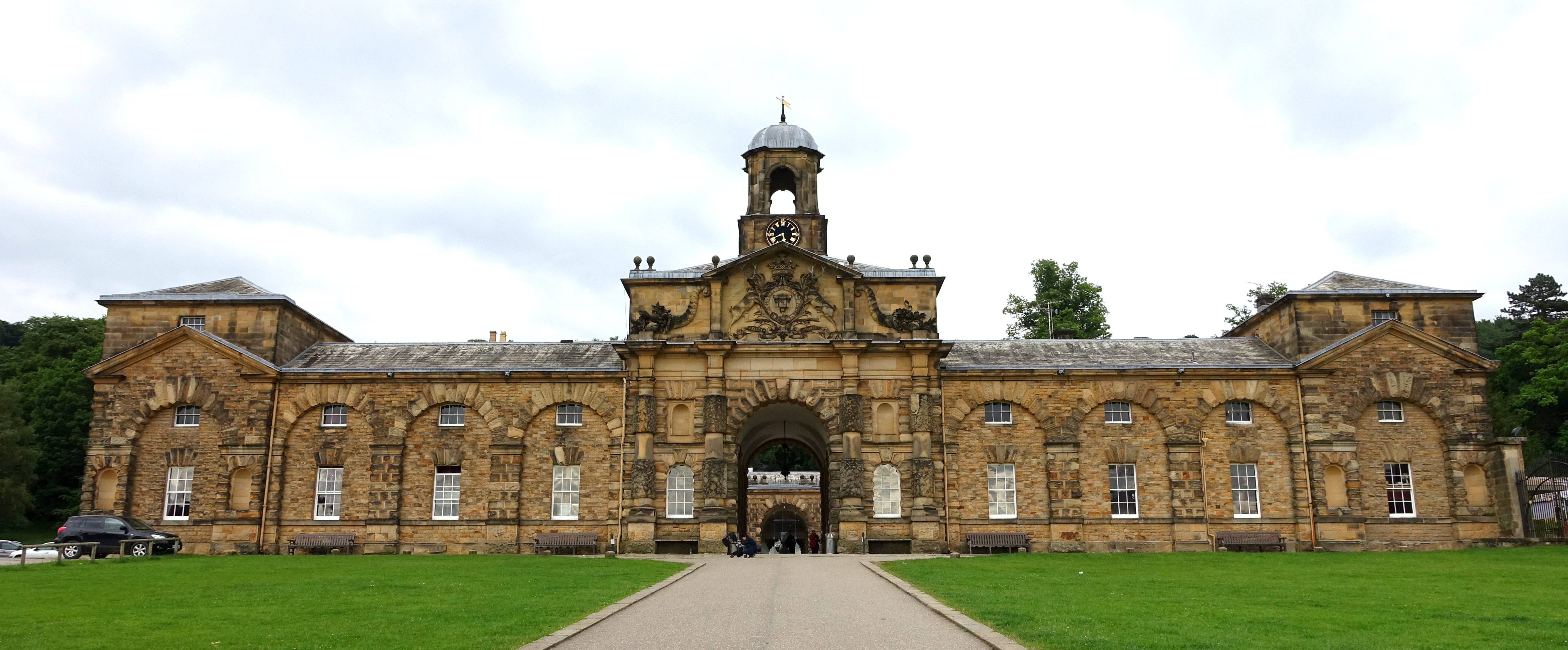 Stable block - Chatsworth House - Derbyshire, England.